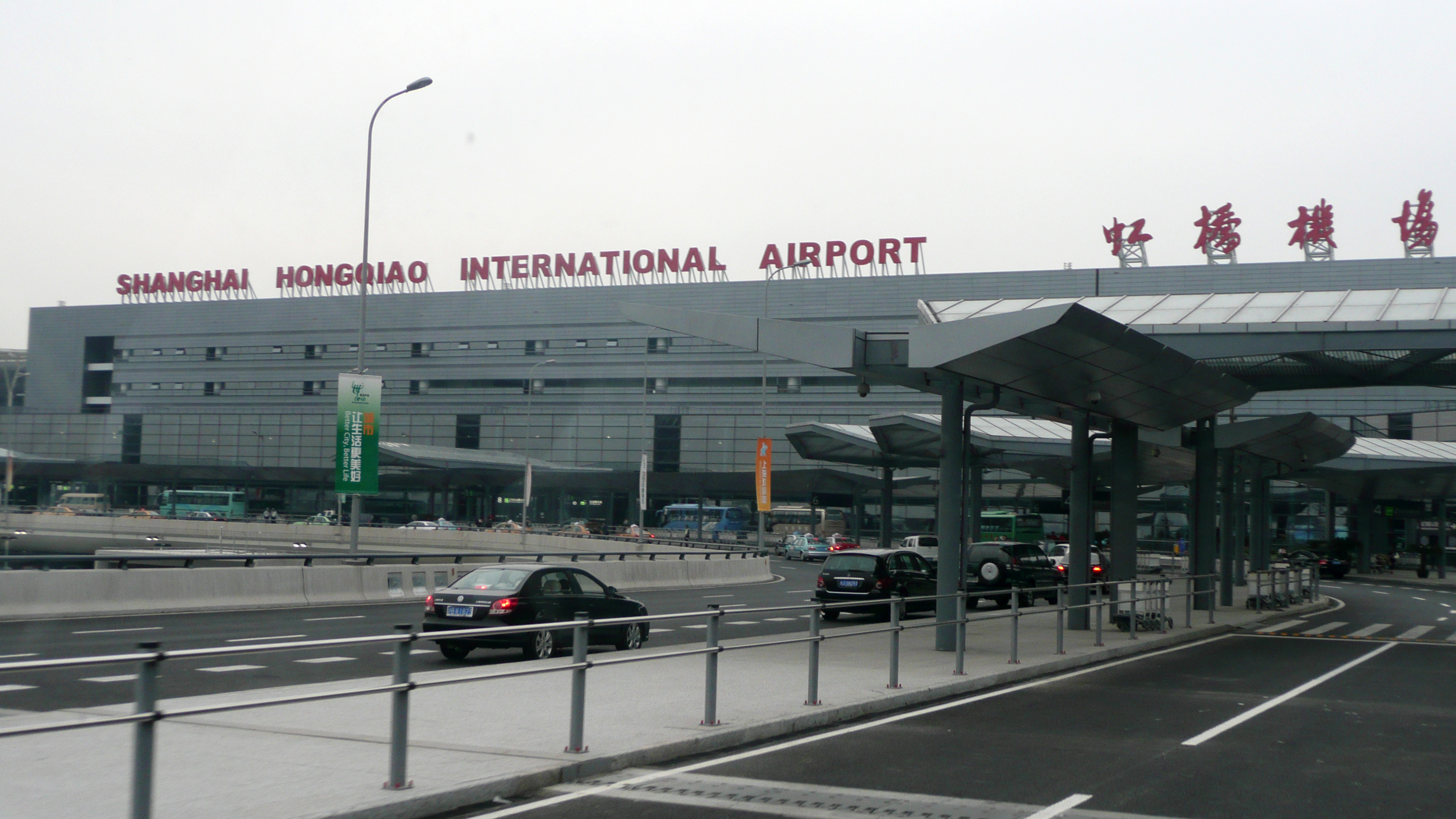 Airport Shanghai-Hongqiao - New Terminal